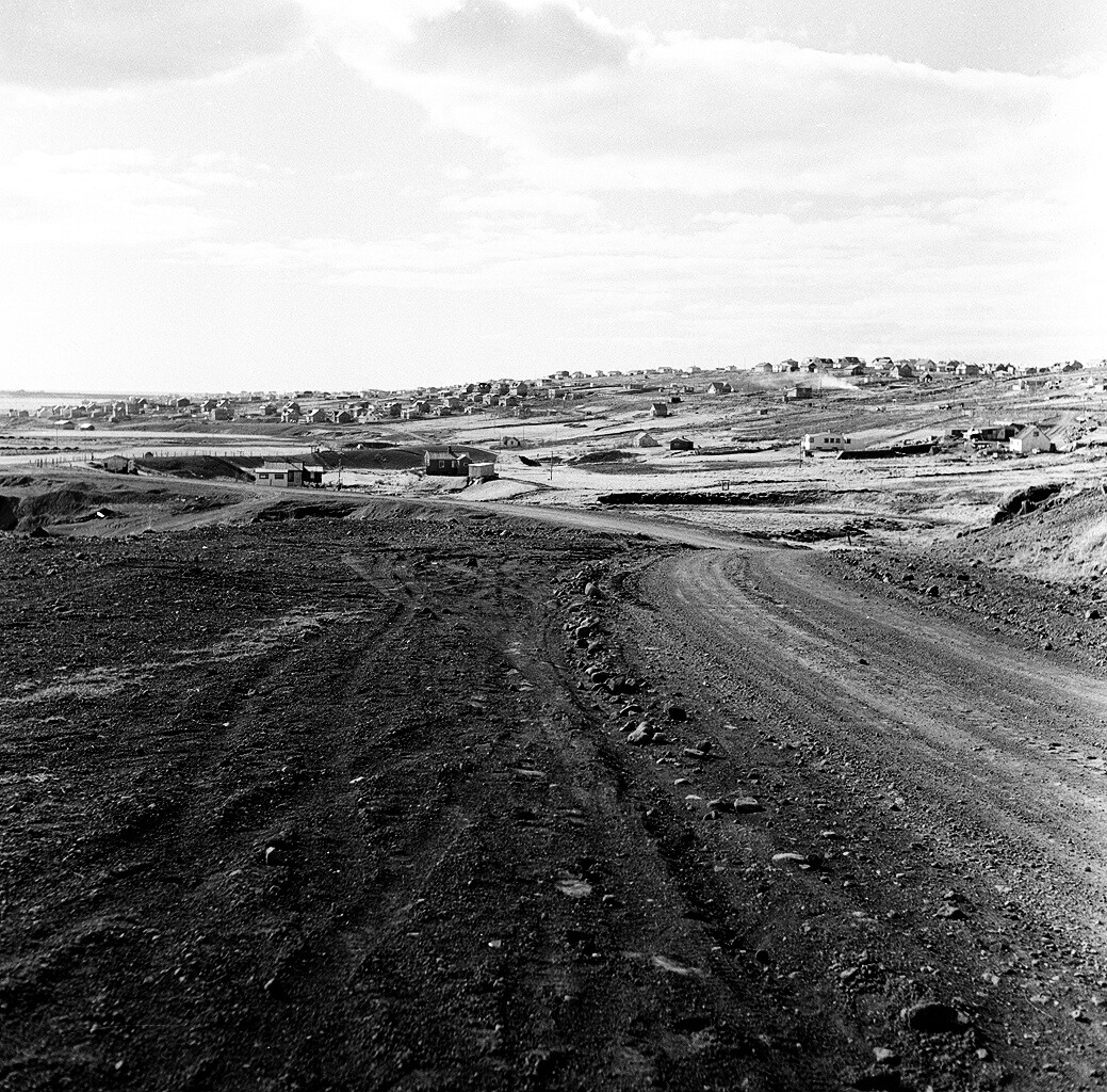 Kópavogur municipality in ca. 1960. This photo was taken by Sigurður Einarsson (1917-2011) and obtained from the Kópavogur Municipal Archives.